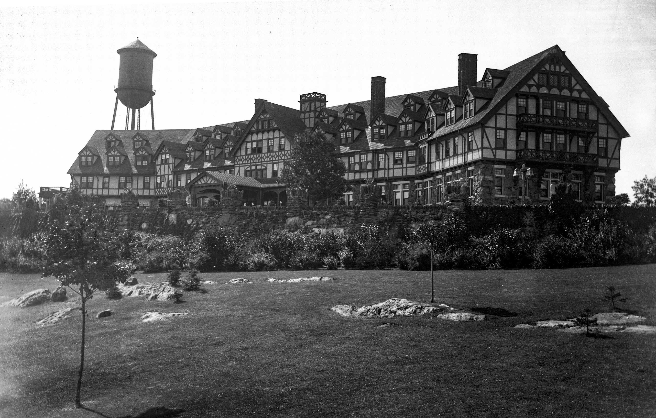 The Briarcliff Lodge c. 1905, by James A. Hart of Ossining, New York. Published in 1952 without a copyright notice, see File:Images from Our Village, Briarcliff Manor 11.JPG